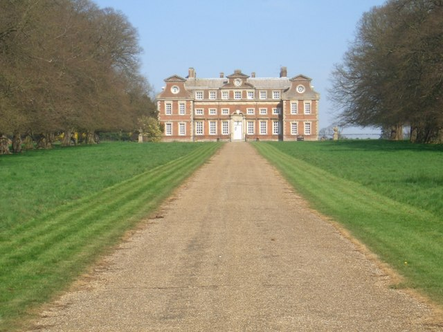 Raynham Hall viewed straight up the avenue